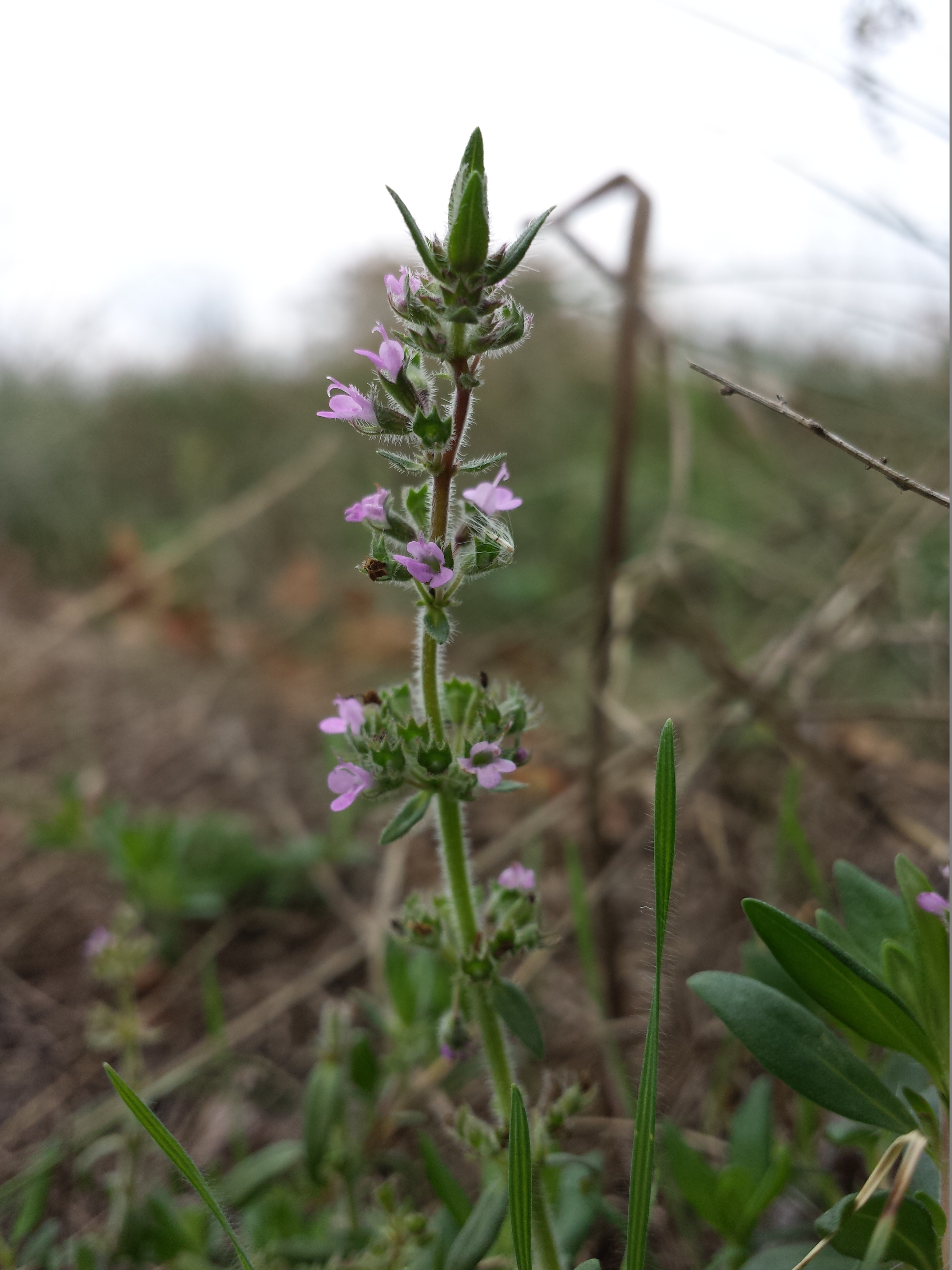 Inflorescence Taxonym: Thymus serpyllum s. str. ss Fischer et al. EfÖLS 2008 ISBN 978-3-85474-187-9 (det. W. Adler 2015-09-05) Location: Erlwiesen Bernhardsthal, district Mistelbach, Lower Austria - ca. 160 m a.s.l. Habitat: dry grassland on acid sand